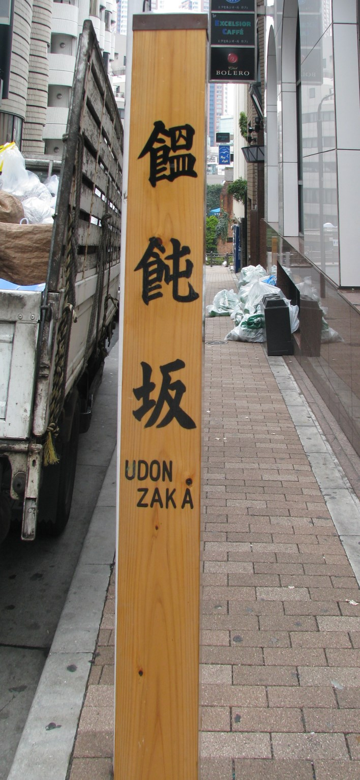 Mark of slope (sakamichi) Tokyo